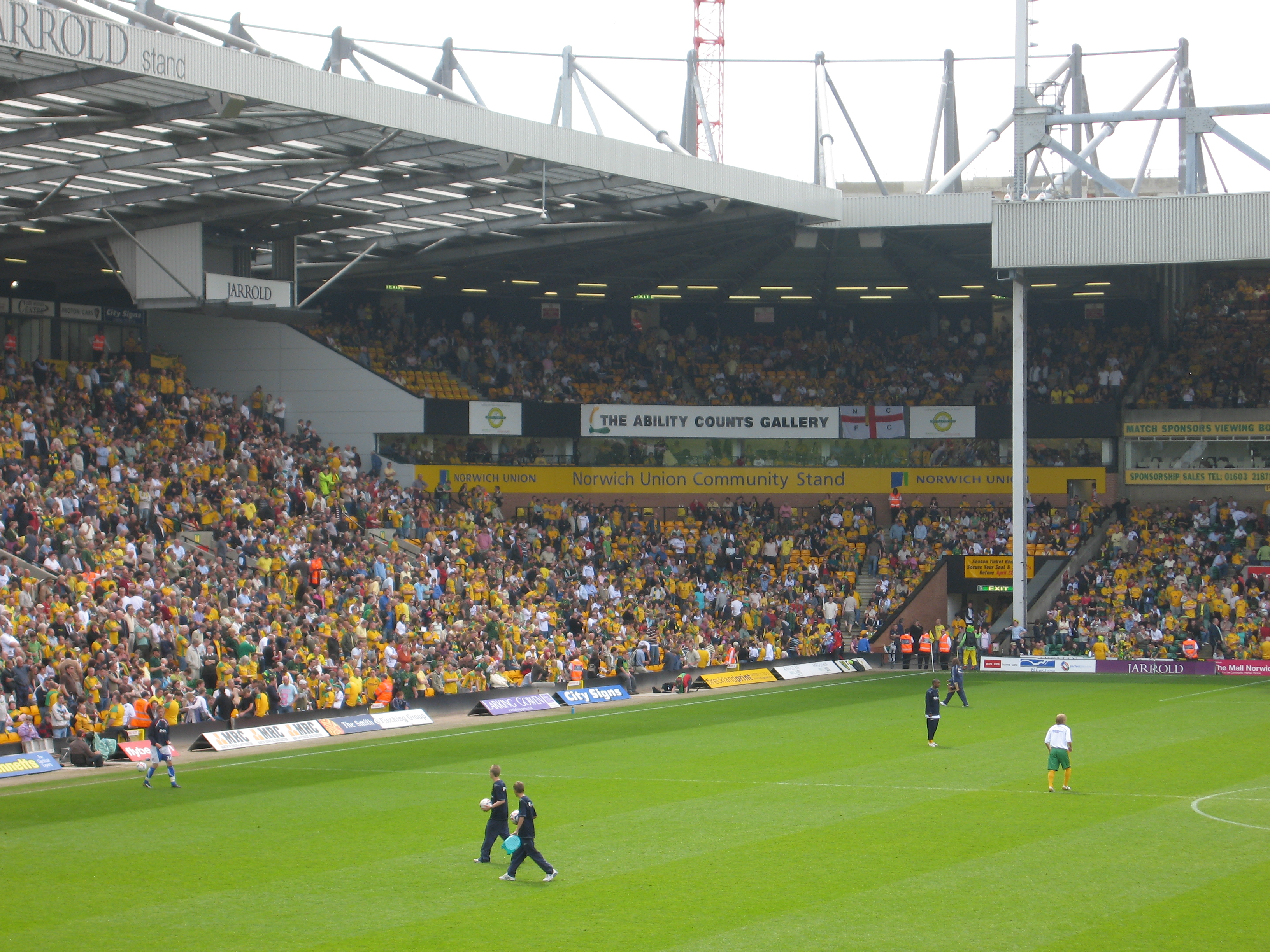 Photograph taken by MLS11 on 22 April 2007 Mls11 22:56, 23 April 2007 (UTC)